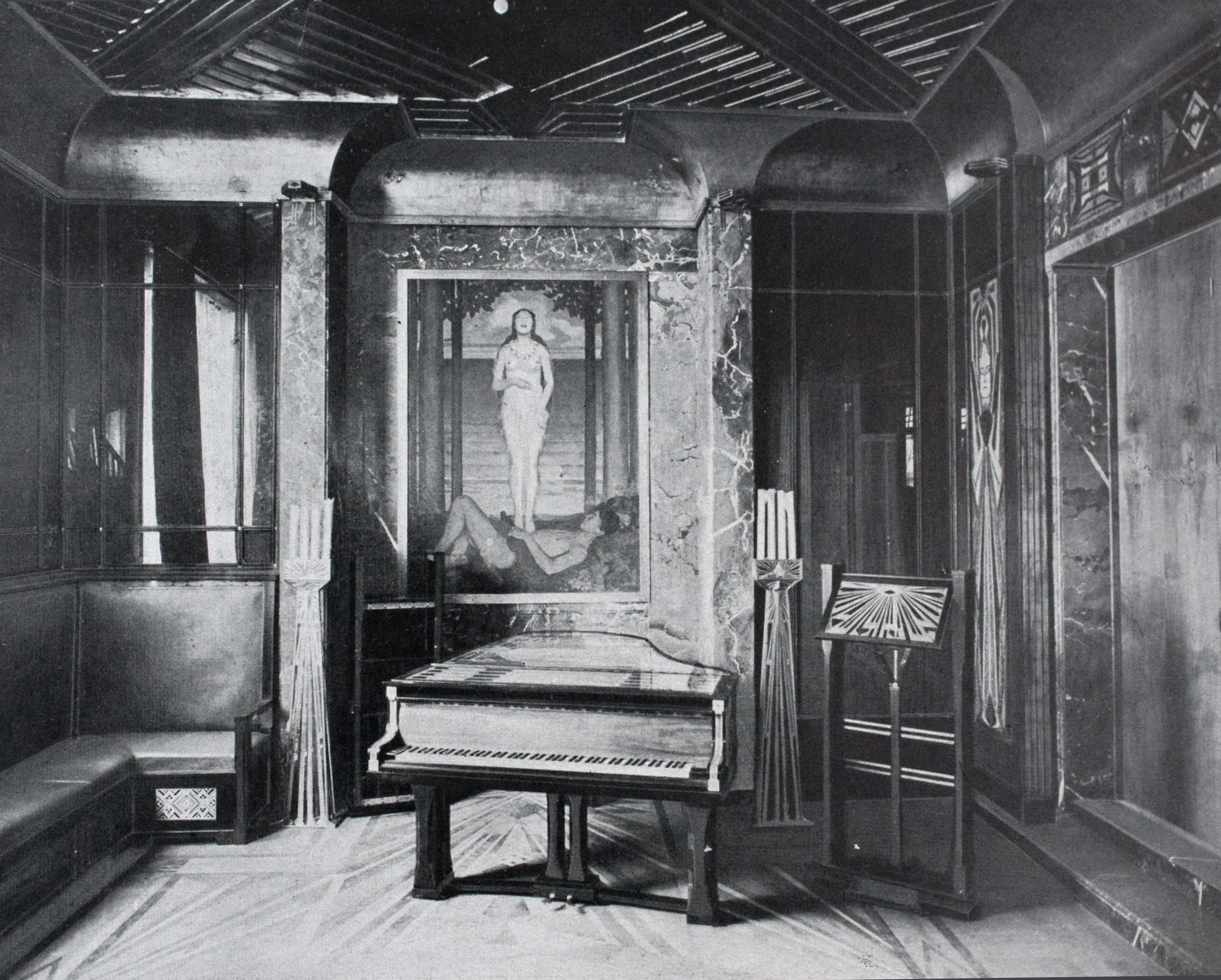 Music room of the Peter Behrens House with Schiedmayer grand piano. Darmstadt Artist Colony 1901. A document of German art.